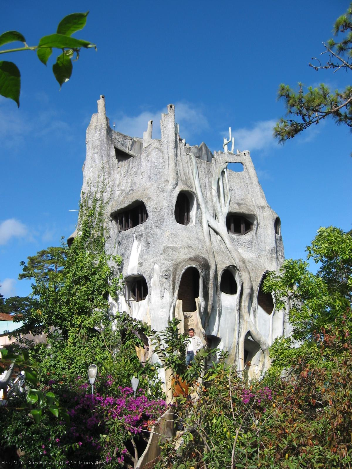 Hang Nga's "Crazy House" in Dalat, Vietnam